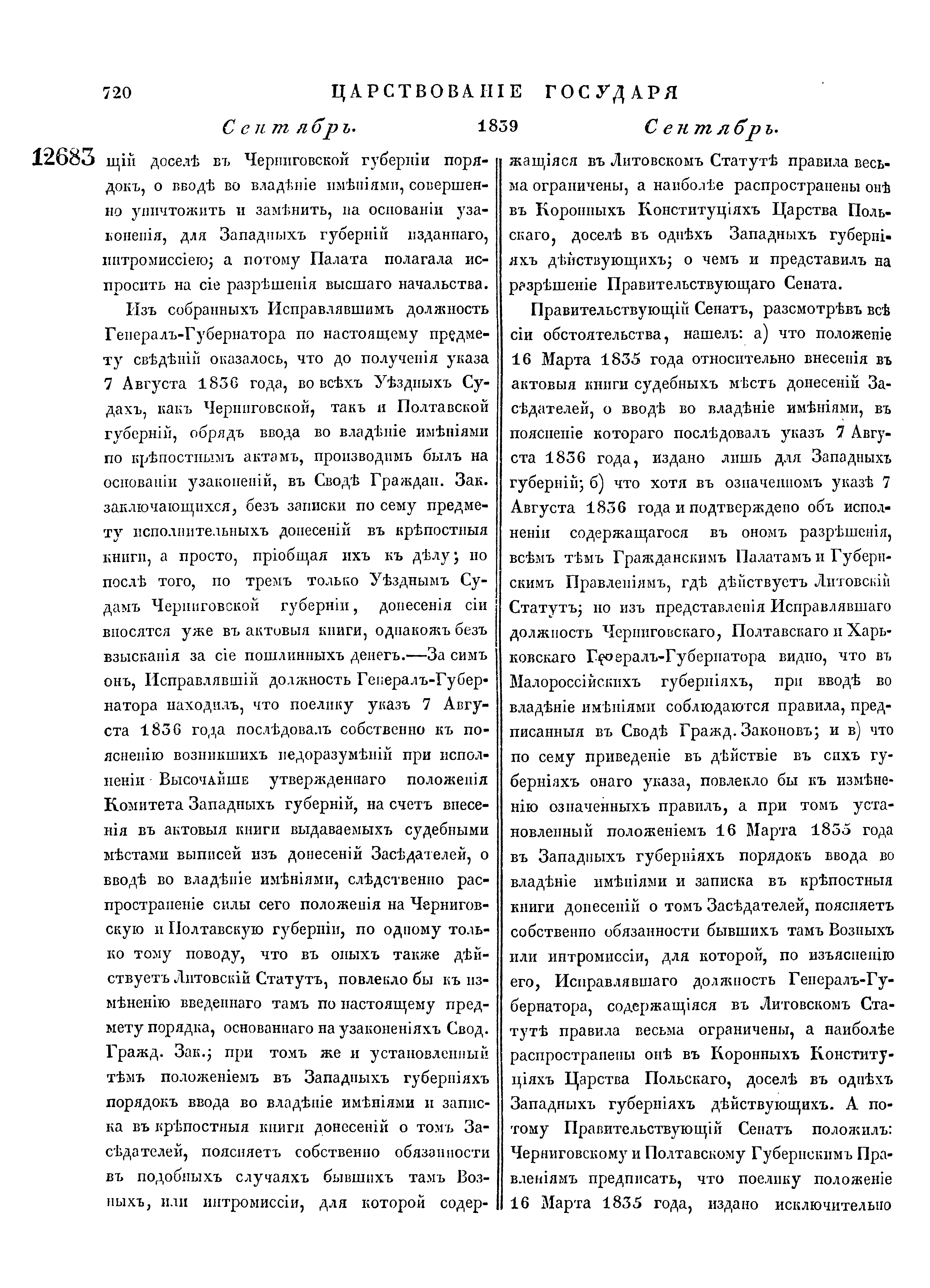 Complete Collection of Laws of the Russian Empire. Collect. 2. Т. 14 nr 12683, 1840 AD